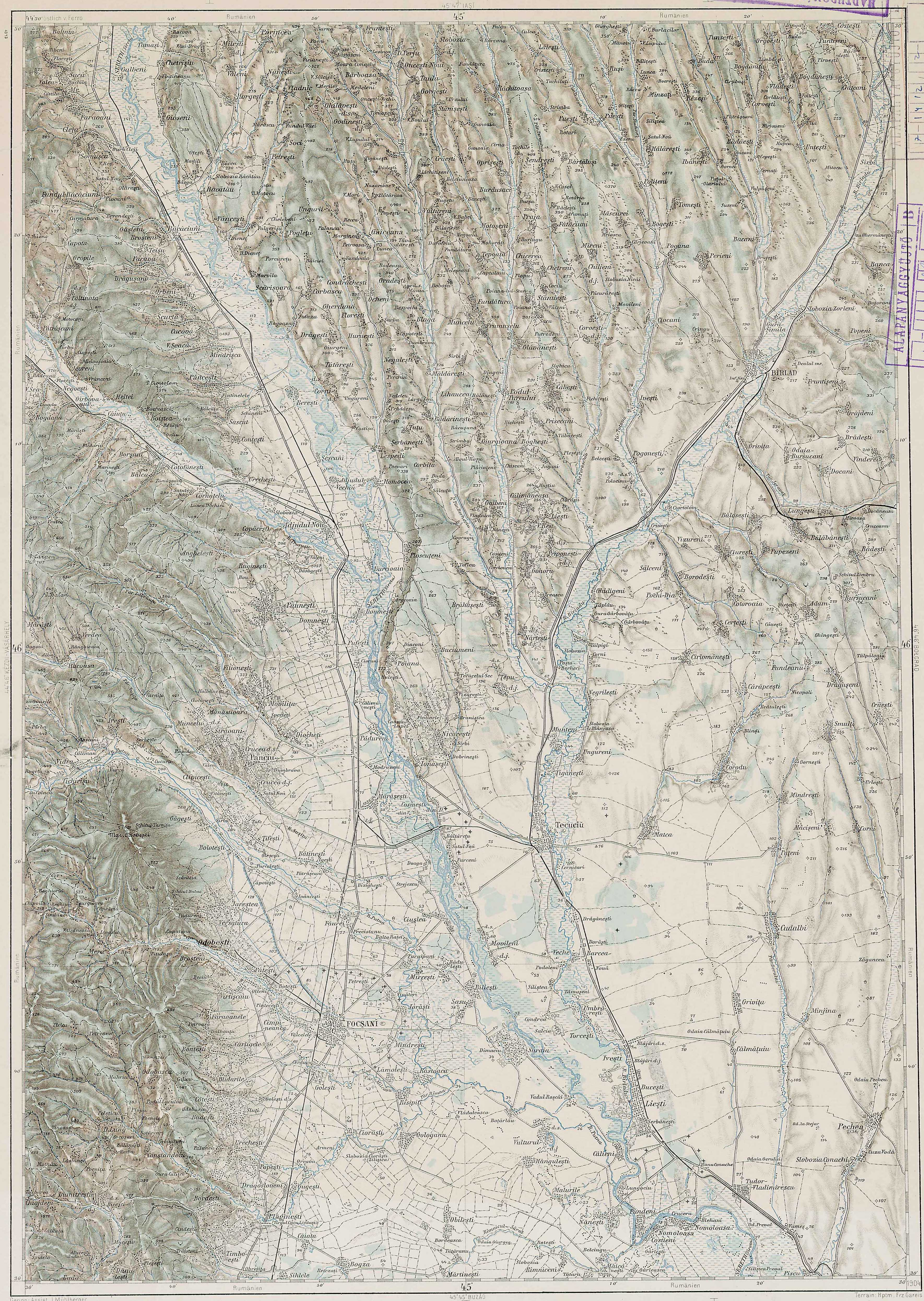 3rd Military Mapping Survey of Austria-Hungary - Focsani